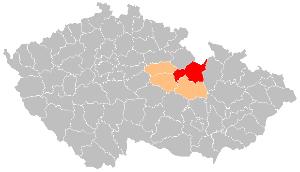 Ústí nad Orlicí District within Pardubice Region. Current borders of districts since January 1, 2007.